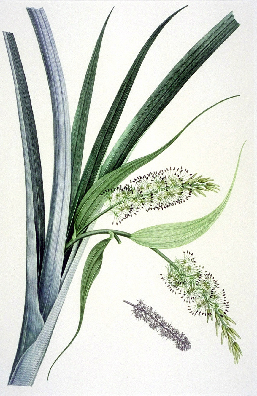 Collospermum hastatum, (Asteliaceae), 'Kahakaha'. Ink And Watercolours On Paper.